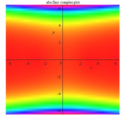 Abs Sinc complex plot